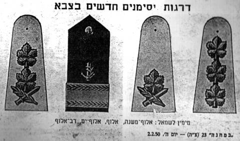 New IDF ranks introduced in 1950